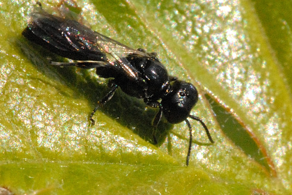 Crossocerus cetratus from Commanster, Belgian High Ardennes .